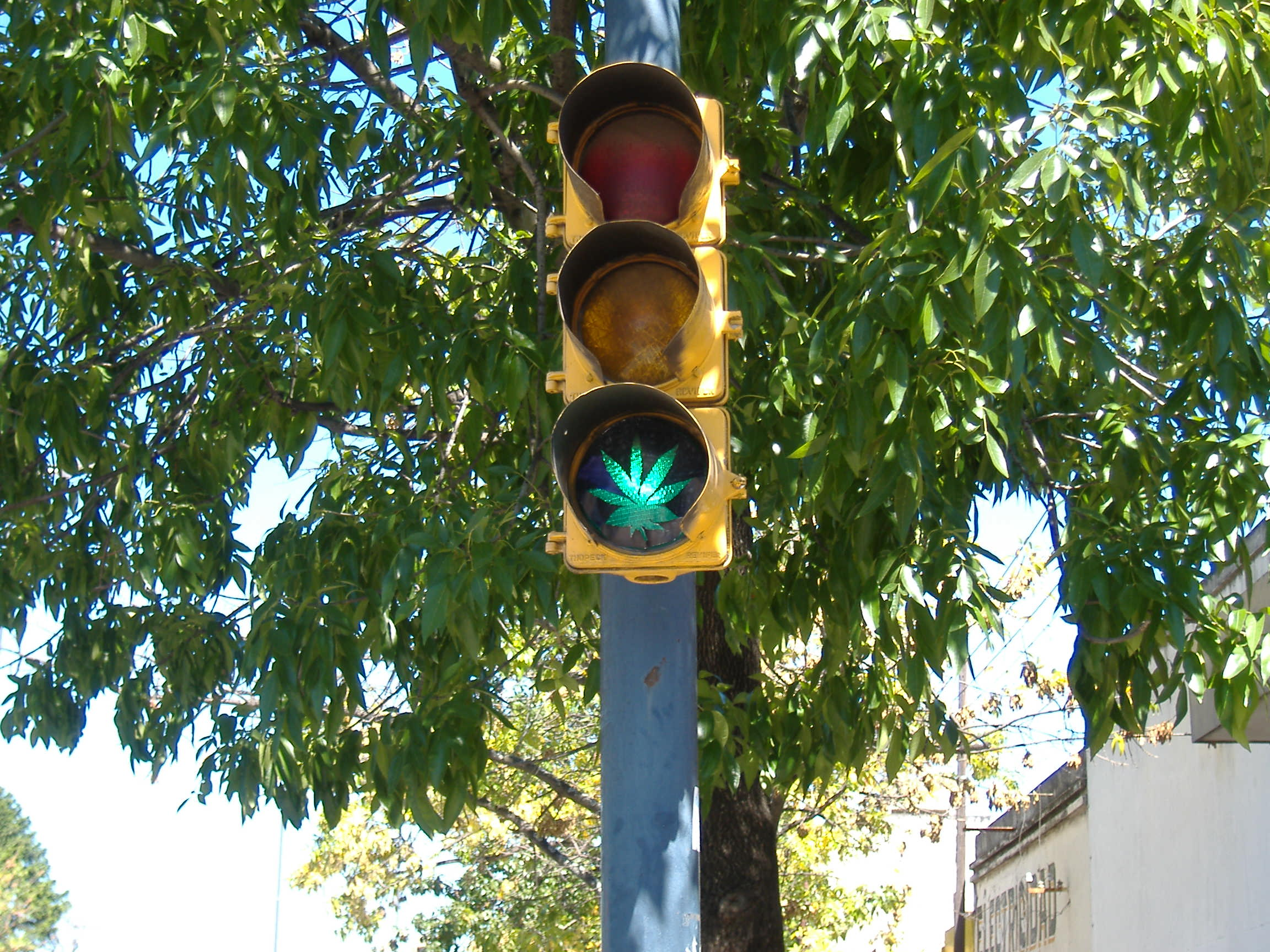 A vandalised traffic signal in Rosario, Argentina, depicting the typical representation of a marijuana leaf.